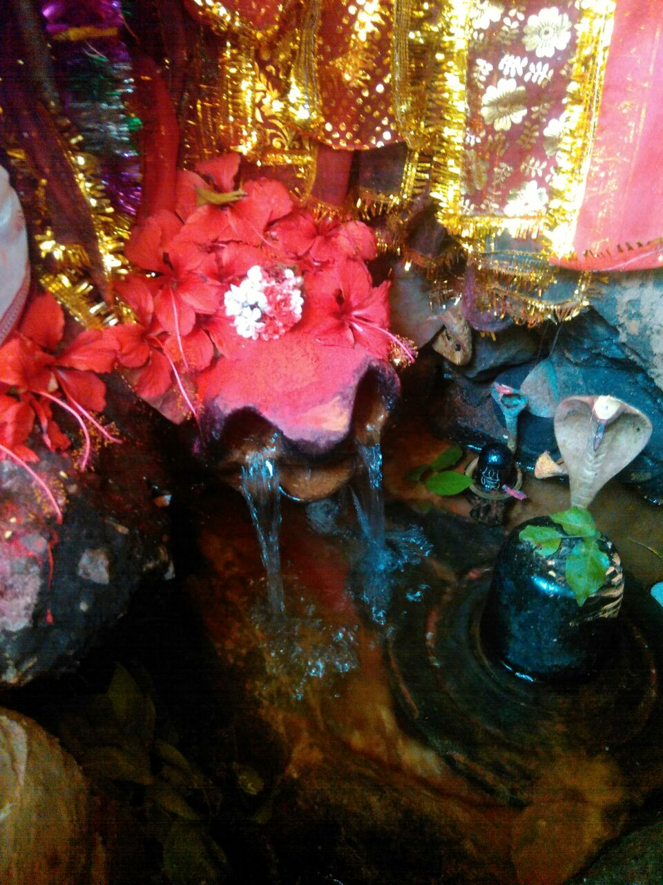 ' Gonasika ' is situated inside forest area approx 30 kms from Keonjhar town of Odisha state. Being inside deep forest , the scenic beauty of this place is very charming. It's also a famous picnic spot . The name ' Gonasika ', means nostril of Cow in hindi, sanskrit and many other languages. The source of water is a stone, which is shaped like nostrils of a Cow. As per mythology and local belief, this is the origin of the mighty Baitarini River of Odisha. There is no trace of any water flow or source coming from above this point of the hill. The clean and pure water comes out from both nostril of the stone, clearly visible as upper mouth portion of a cow. You can say this as ' Gomukh ' or mouth of a Cow. It is said that, in earlier times water was coming from one nostril and sand from another. But, now only crystal clear water flows uninterrupted from here. Beauty of this place gets more attractive during monsoon and winter season. A very good road is made up to Gonasika which connected to NH 49 ( Mumbai - Kolkata Highway ). It is also called the ' Guptaganga '. While coming to Gonasika , you will find a small but very old Shiv Temple called ' Brahmeswar Shiv Temple. From this Shiv Temple, the Gonasikka Guptaganga is another 2 kms up and inside forest. This place is totally safe for tourists, as a village called Guptaganga is situated nearby. Please come to see a place from where one of the important river of Odisha originates. Large tree trunks are spread in and around this small temple, which is called the ' Jata ' ( bunch of old and uncombed hair ) of Lord Shiva. You can take the holy / pure water direct from the source with permission of priest of the temple.